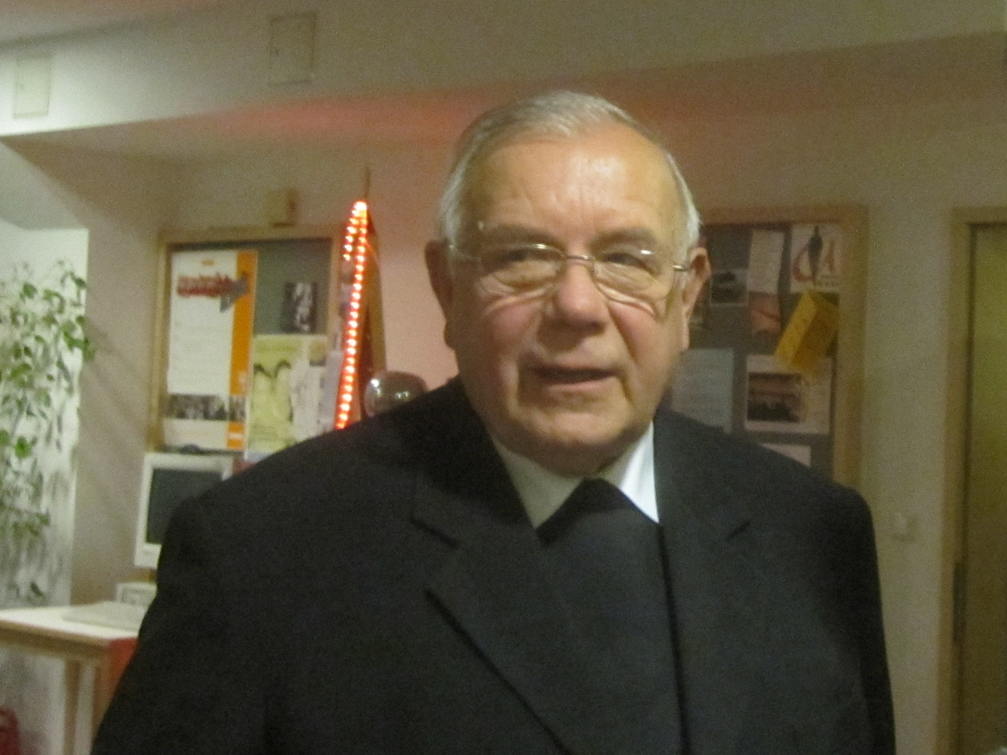 Maximilian Aichern.